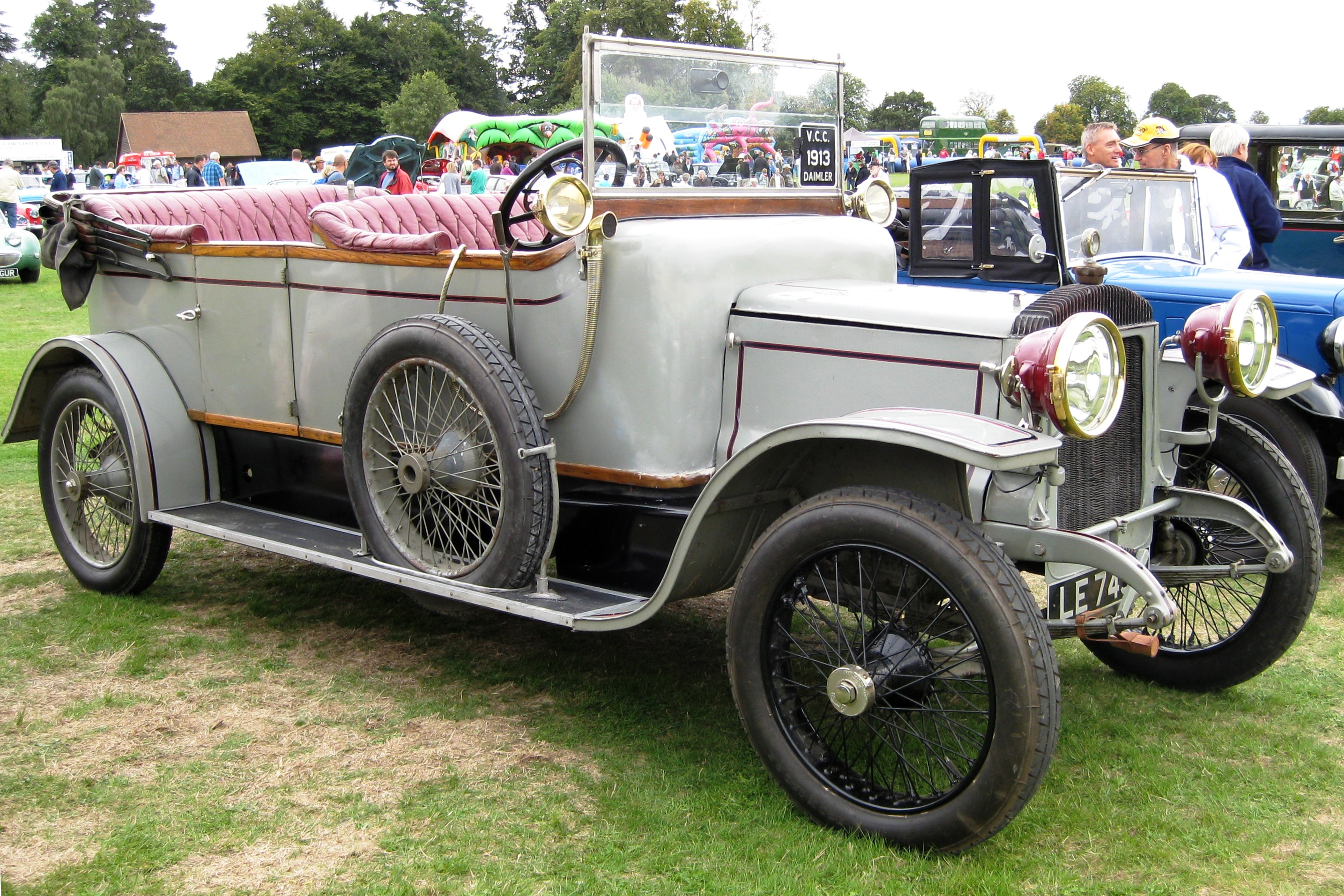 Daimler at Knebworth If this is a 3309 cc engine it is most likely to be a 20 hp four cylinder (90 x 130) and two-thirds of a 30 hp six-cylinder Daimler